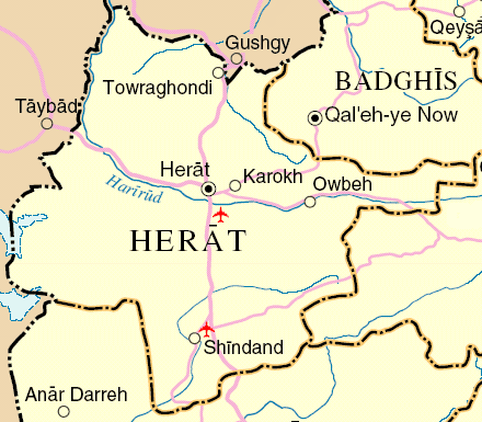 Map of Herat Province, Afghanistan Extracted from